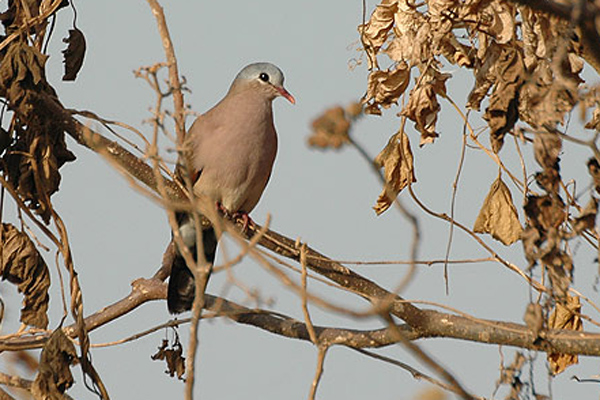 Uganda Blue-spotted Wood-dove (Turtur afer) Entebbe, Uganda